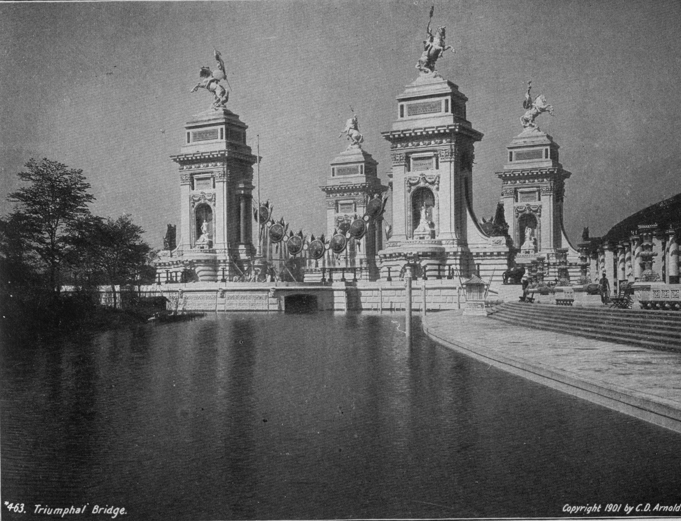 Original caption: "The Triumphal Bridge - This bridge is the most monumental and artistic entrance to the main court of an exposition ever constructed. It was designed by John M. Carrere, Chairman of the Board of Architects. The pylons, 116 feet in height, are surmounted by figures of youths upon horses, the work of Karl Bitter, Director of Sculpture. They represent "Peace" and "Power." Other statuary groups abound upon the bridge, which, as a whole, expresses welcome to the nations."